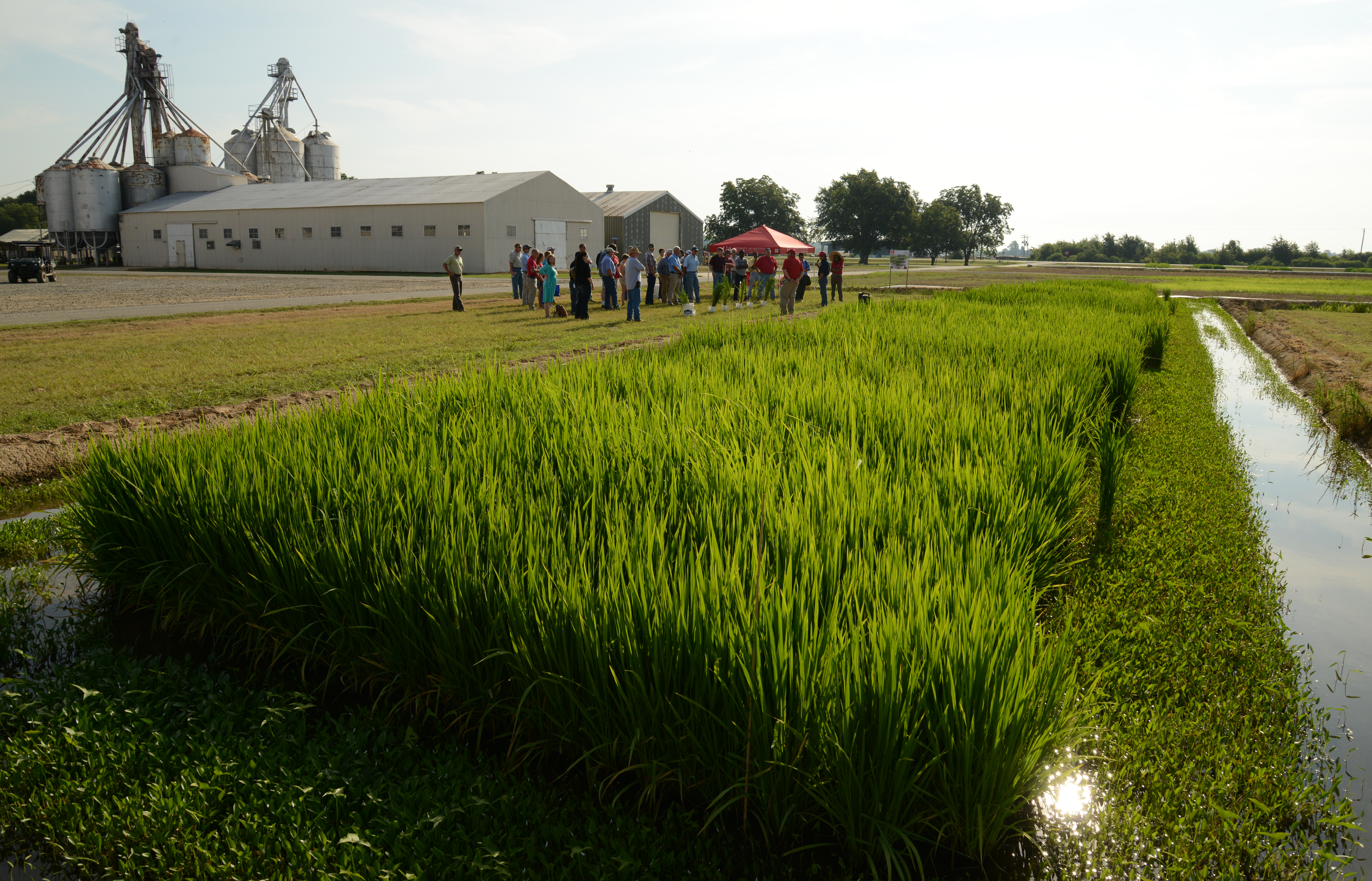 TOUR -- One of the field tours during the 2013 Arkansas Rice Expo. (U of Arkansas System Division of Agriculture photo by Fred Miller)